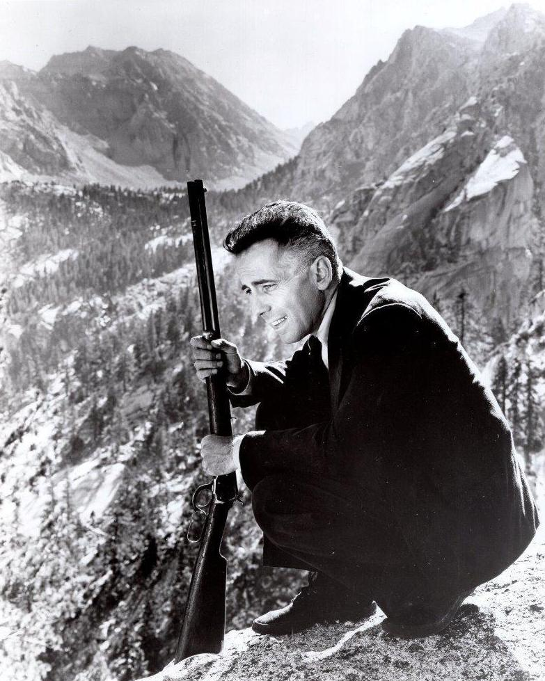 Promotional Still of Humphrey Bogart in American gangster heist noir film High Sierra (1941). See also film still. No copyright notice.